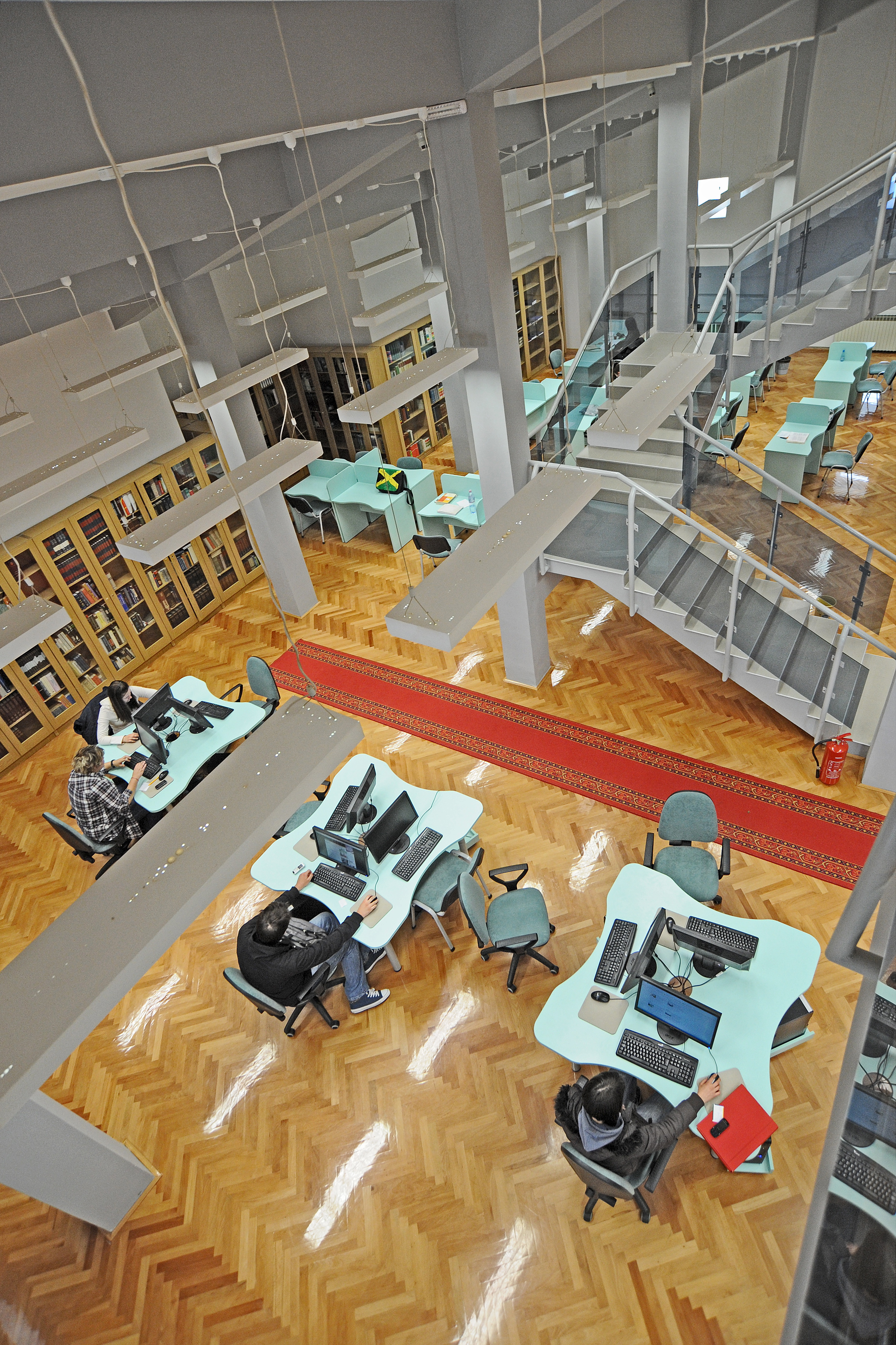 University Library gallery and Reading room in Kragujevac, Serbia